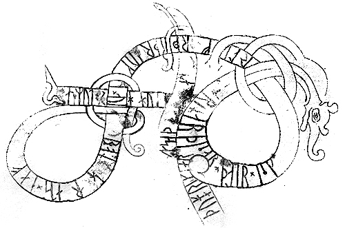 Drawing of runic carving on Piraeus Lion.